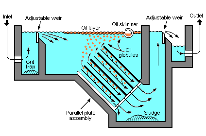 I am the author and I drew this diagram myself using Microsoft's Paint program. This image depicts a parallel plate oil-water separator used in industrial wastewater treatment. - mbeychok 19:20, 24 August 2007 (UTC)